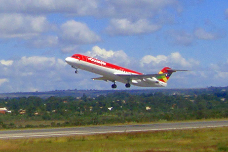 Brazilian OceanAir aircraft taking off at Juscelino Kubitschek International Airport, Brasilia, D.F.